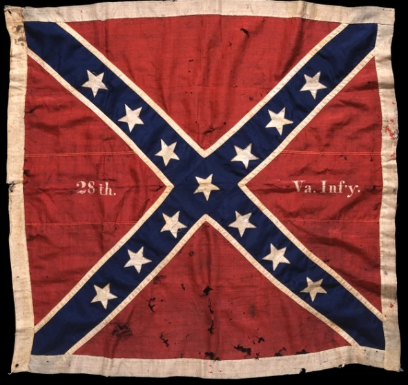 28th Virginia Infantry Color captured at Gettysburg by Private Marshall Sherman, Company C, 1st Minnesota Infantry